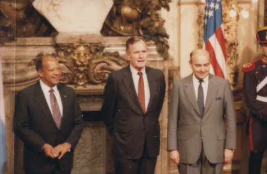 PRESIDENT BUSH, U.S. AMBASSADOR TO ARGENTINA TERENCE TODMAN AND DOMINGO CAVALLO (FOREIGN AFFAIRS MINISTER, ARGENTINA) GREET MEMBERS OF THE FOREIGN DIPLOMATIC CORPS, SALON BLANCO, CASA DE GOBIERNO (CASA ROSADA).